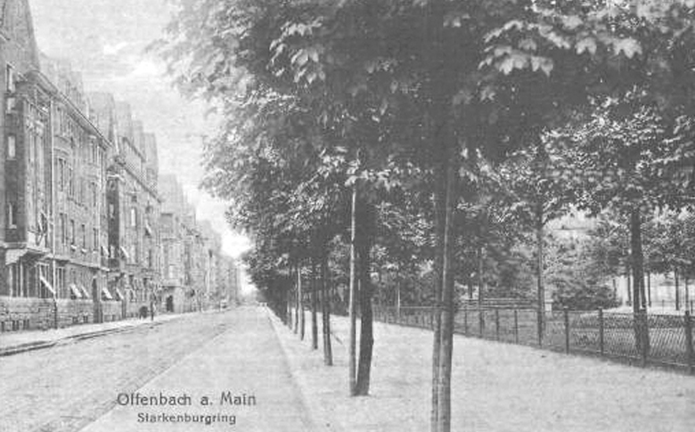 Starkenburgring in Offenbach, c. 1905